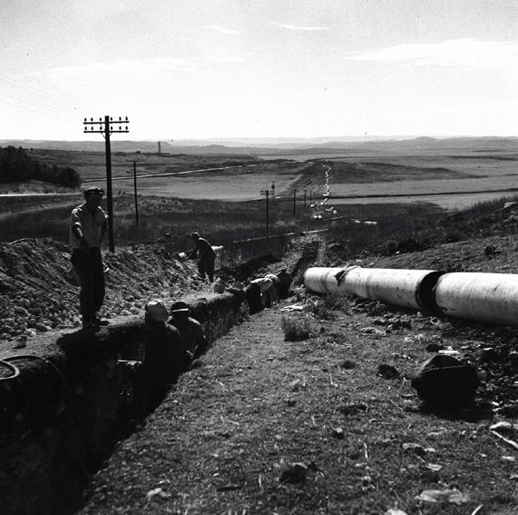 Water to Jerusalem, Settlements in Israel